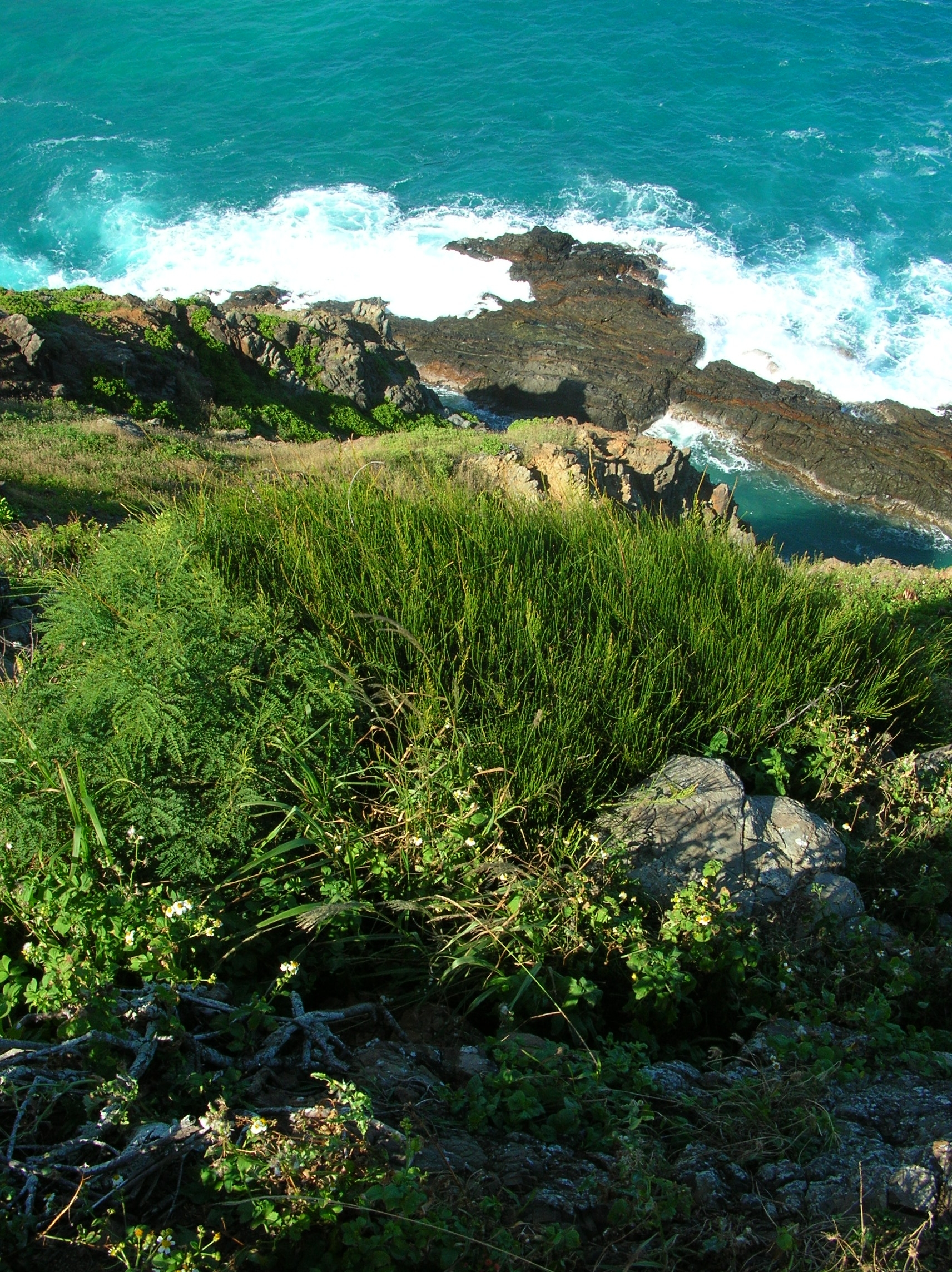 Casuarina glauca (habit near summit). Location: Oahu, Mokulua South